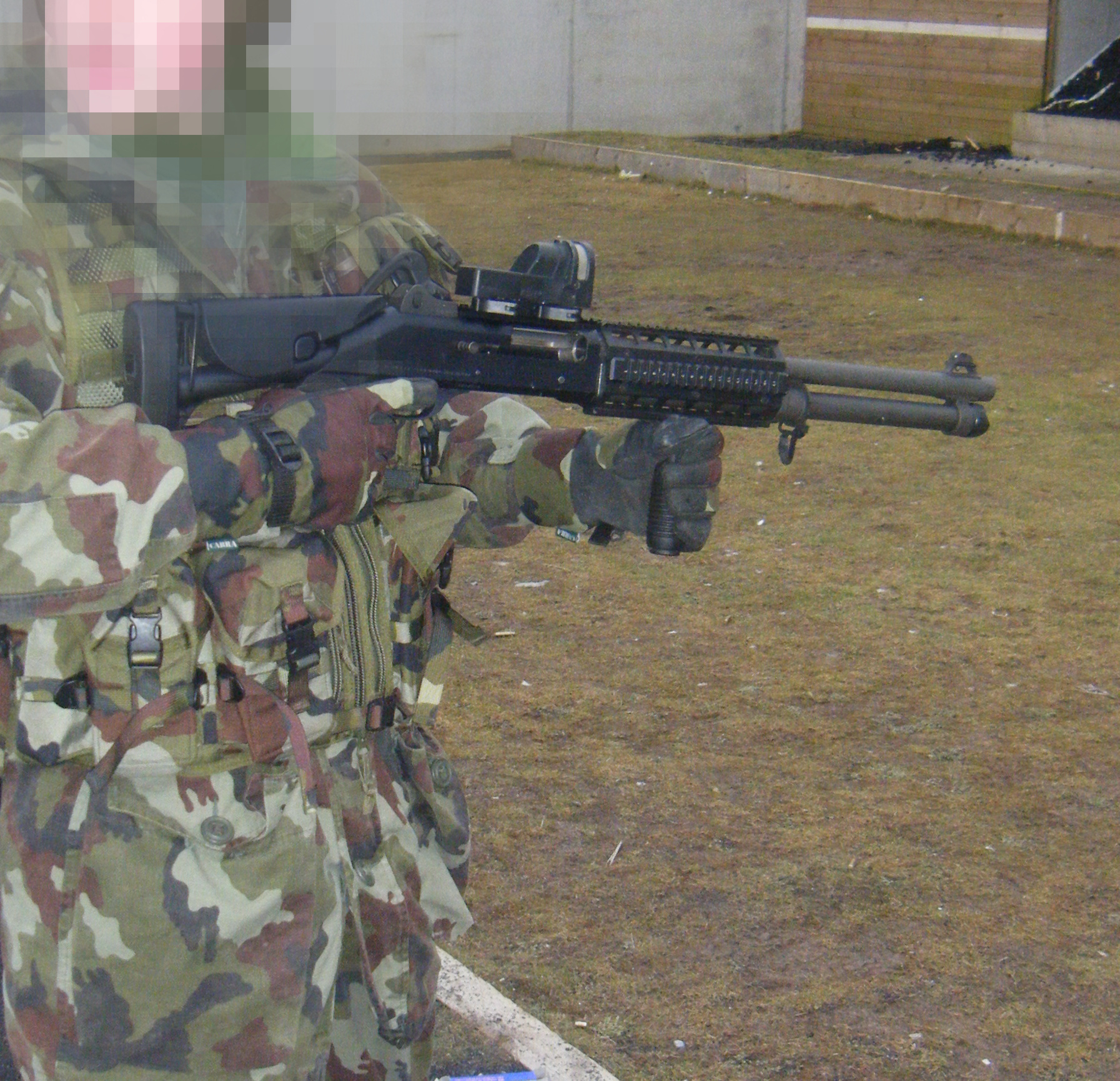 Irish soldier demonstrating a Benelli M4 Super 90